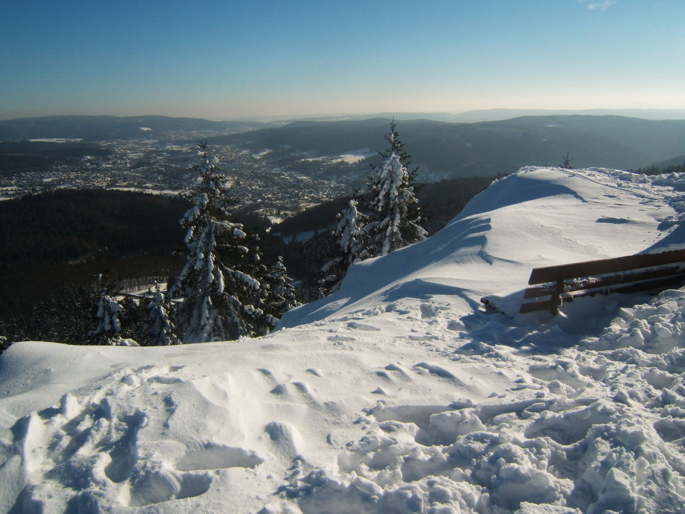 Bench at the top of the Ruppberg, view to Zella-Mehlis and Suhl, Germany. Thuringian Forest, Germany